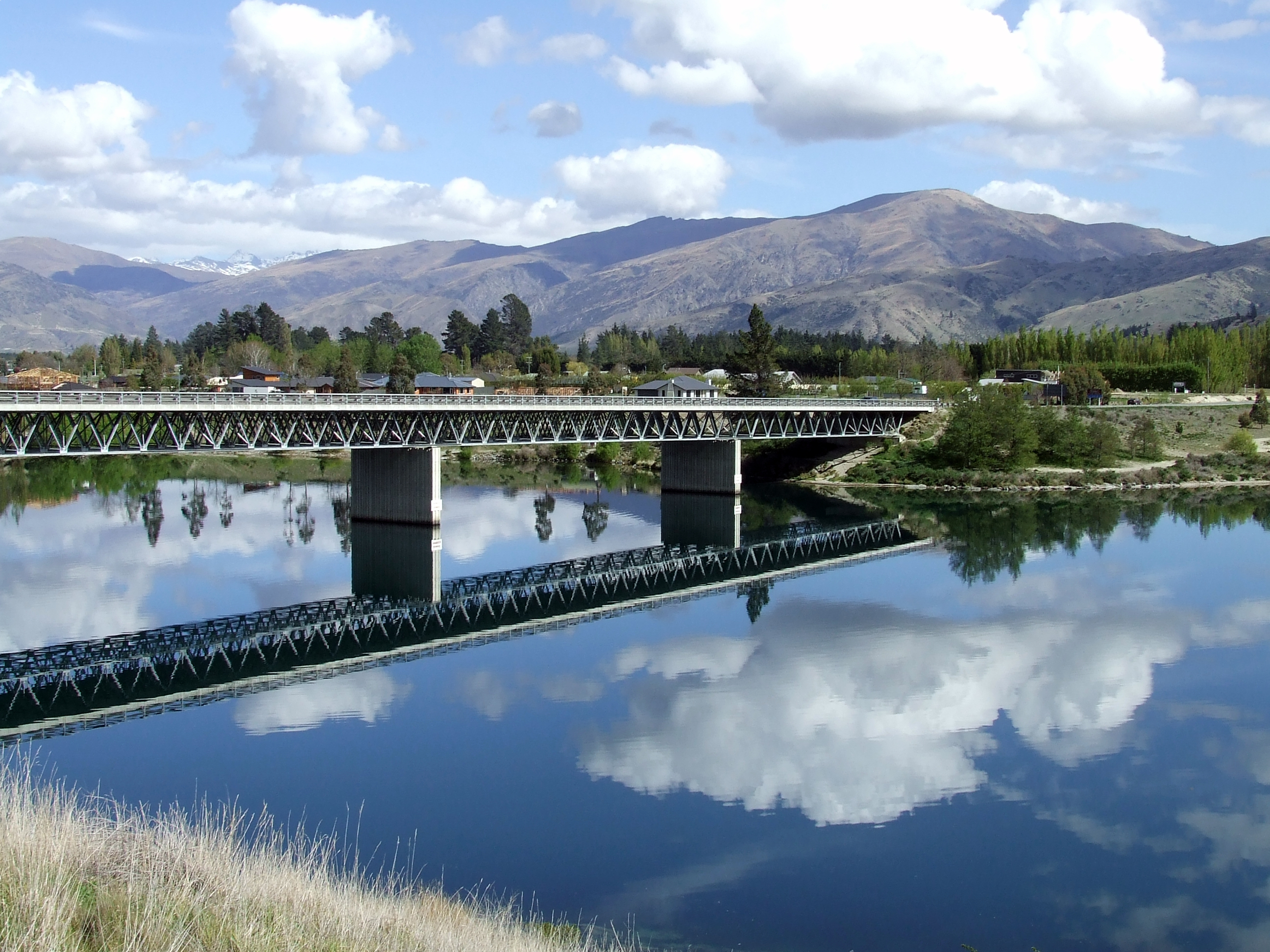 Deadmans Point Bridge (272m deck truss, steel superstructure), State Highway 8b, at Lake Dunstan / Cromwell, New Zealand. Mt Difficulty (1282m) on Carrick Range in background.